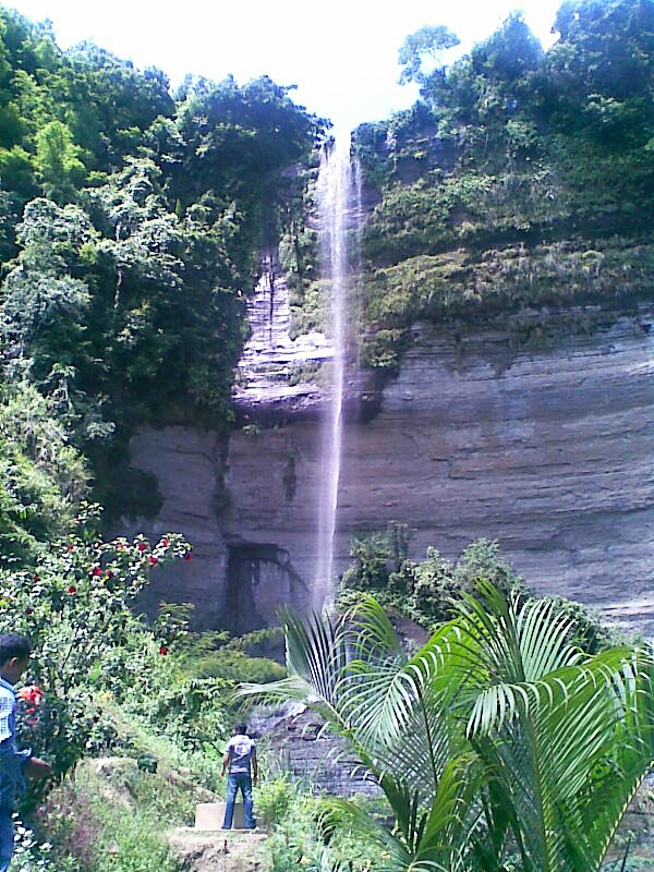 Shuvolong waterfall, Rangamati, Bangladesh.